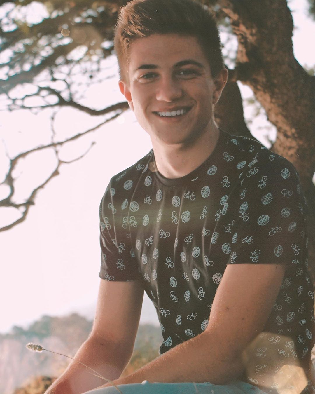 Viktor Đerek, Croatian photographer